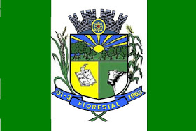 Flags of the city of Florestal, Minas Gerais, Brazil.